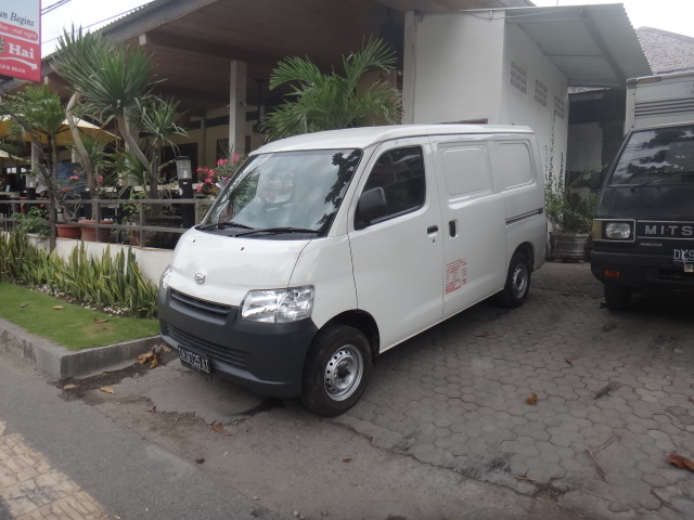 This Daihatsu Gran Max is also a popular little van here and it's also sold in pickup form. These types of vehicles, little vans and pickups, are very popular here to move around the crowded streets. Notice the Mitsubishi L300/Expressvan parked next to it?? I couldn't believe they still make them here!! They too come in van and pickup body styles. Crazy!!